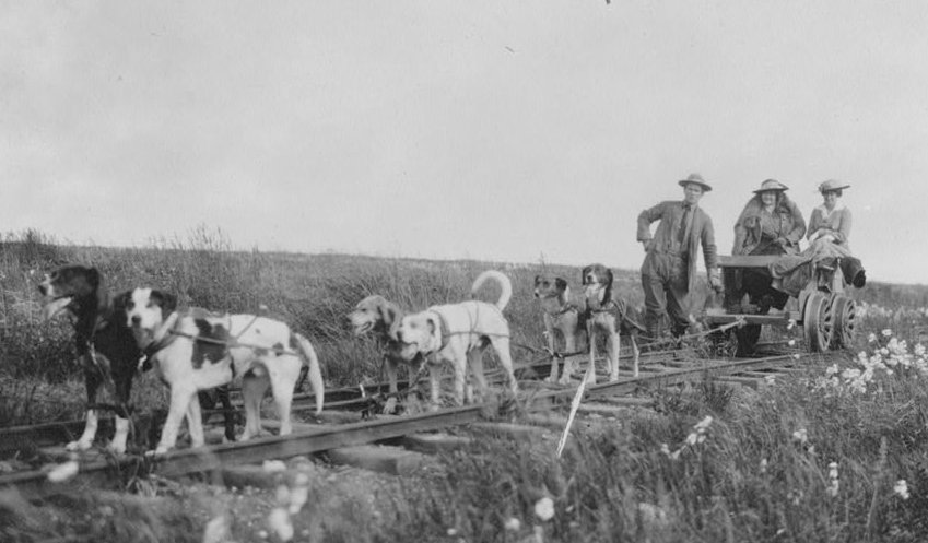 Pup-mobile / View of a dog team pulling a cart, with passengers, on train tracks near Nome, Alaska, taken in 1906 / Documented in: Frank G. Carpenter (1923) Alaska - Our Northern Wonderland S. 197 CHAPTER XXV THE DOG DERBY OF ALASKA